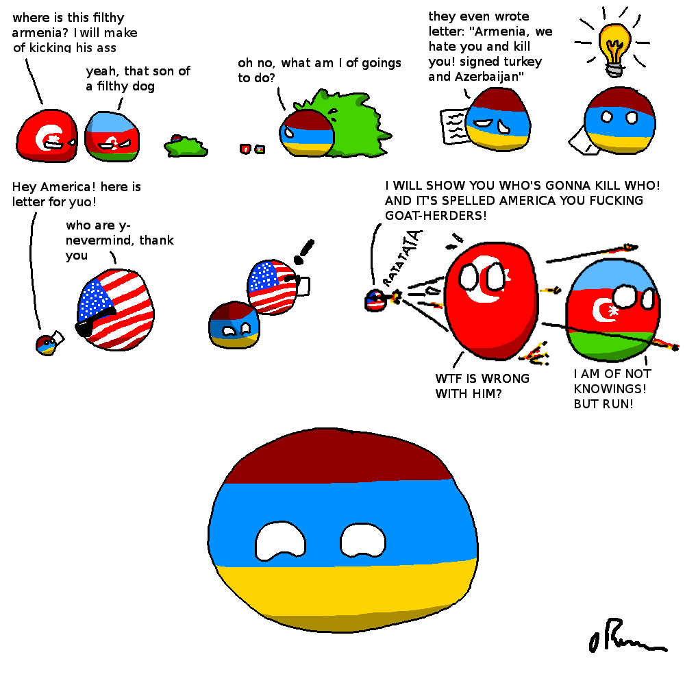 Polandball comic on Armenia manipulating the US